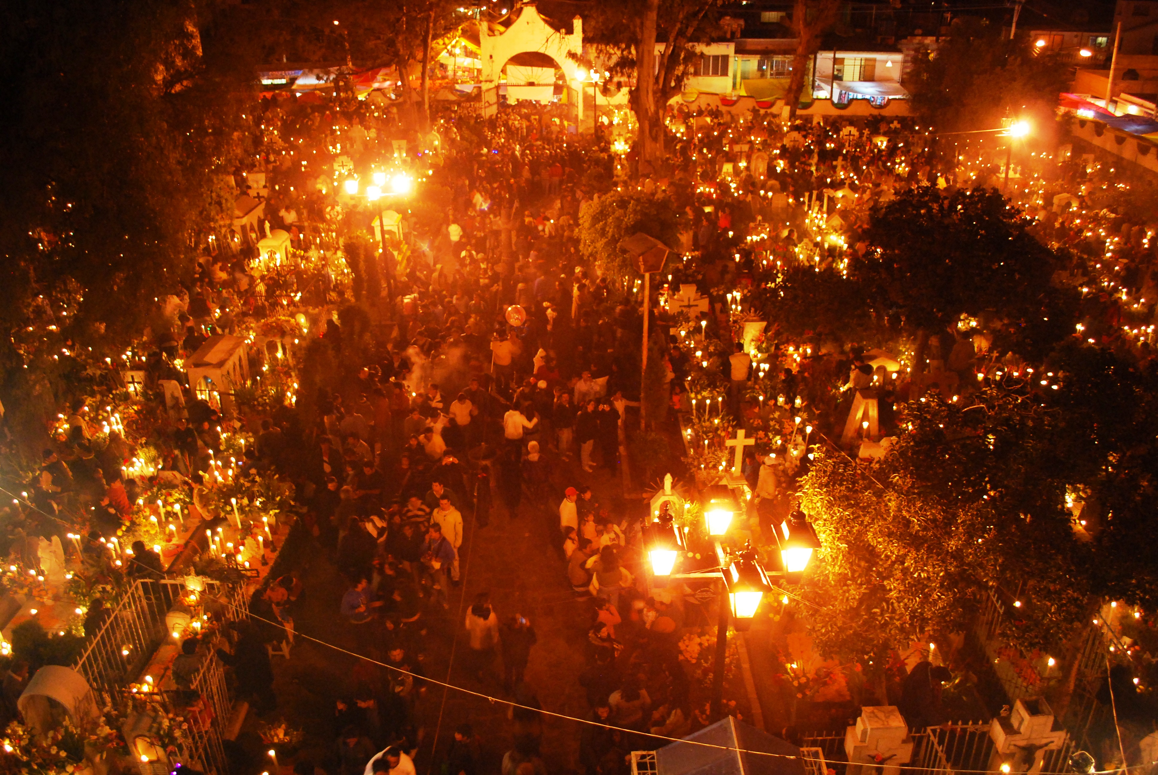 View of front portion of cemetery from the roof of the San Andres Apostol Church in San Andres Mixquic during Day of the Dead